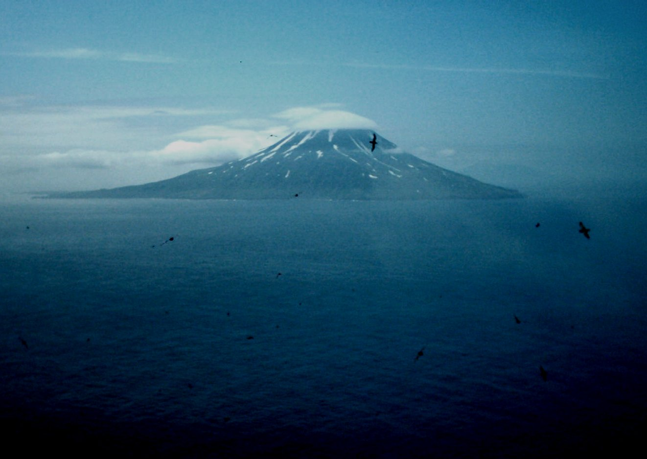 Photograph taken by user: Eliezg 00:29, 7 February 2007 (UTC)